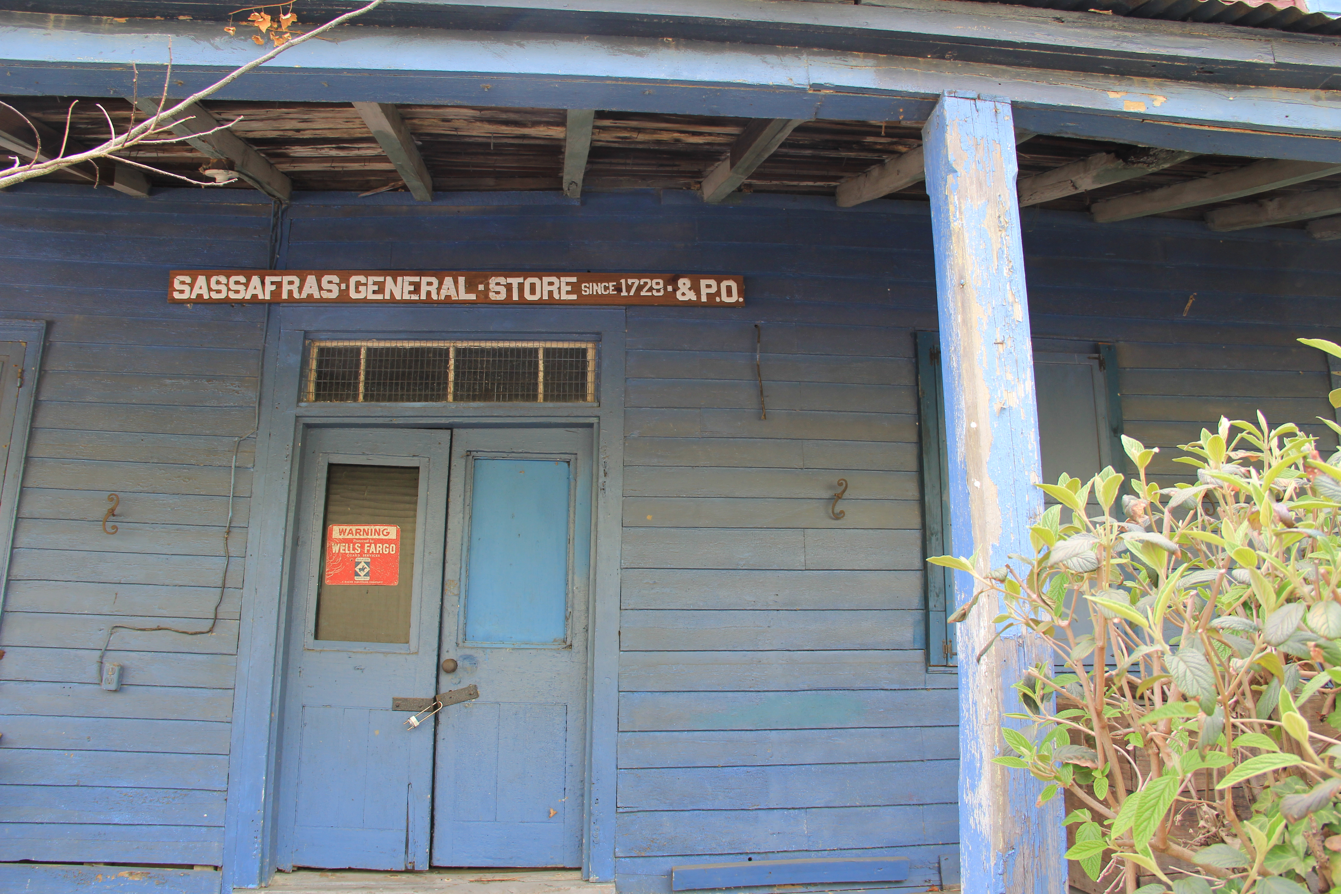 Sassafrass General Store and Post Office. Since 1729.